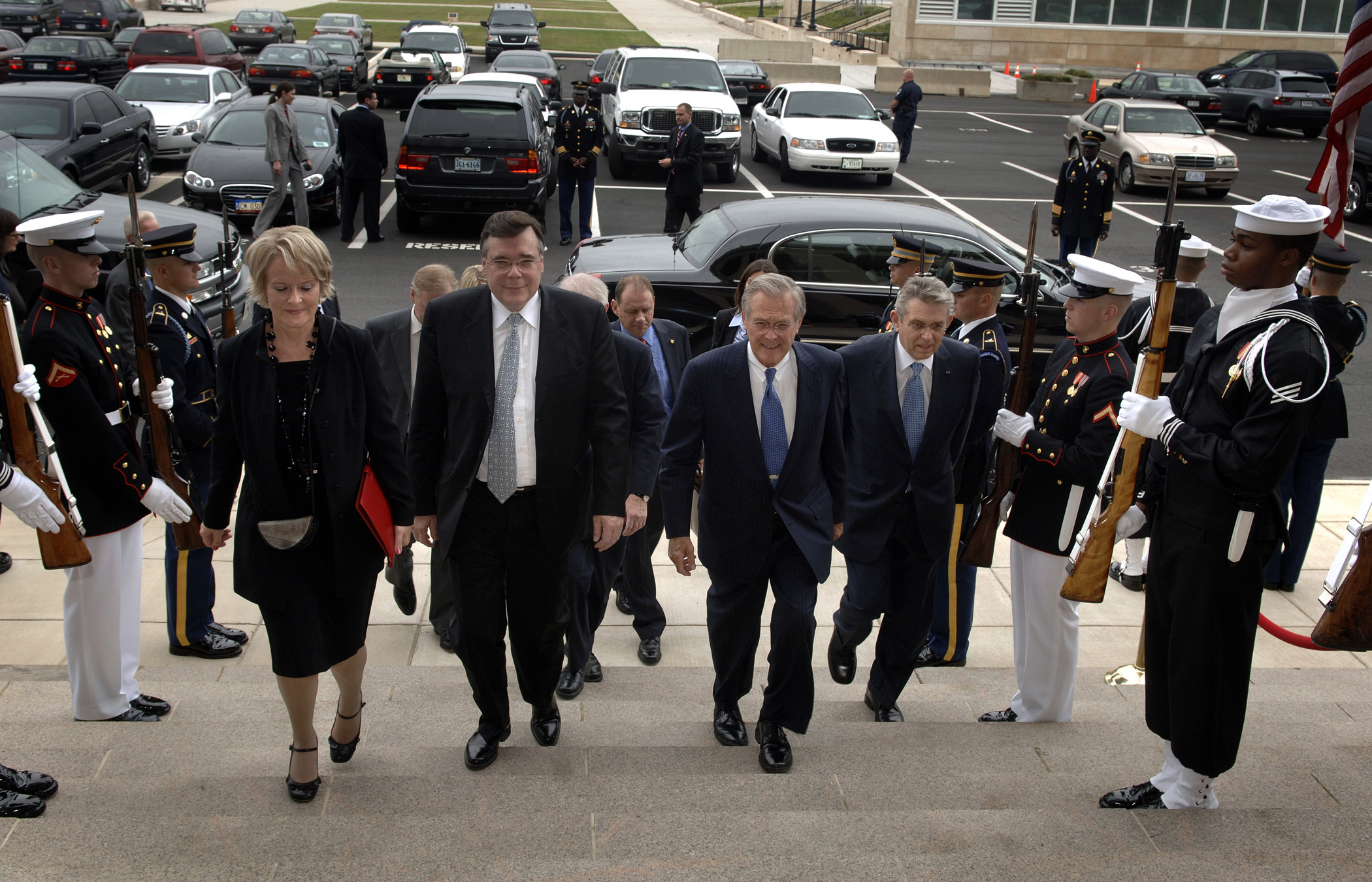 U. S. Defense Secretary Donald H. Rumsfeld (second from right) escorts Prime Minister of Iceland Geir Haarde (second from left) and his delegation, including Björn Bjarnason (at right) and Valgerður Sverrisdóttir (at left) through an honor cordon as they enter the Pentagon, October 11, 2006. The two leaders are meeting to discuss security issues of mutual interest.